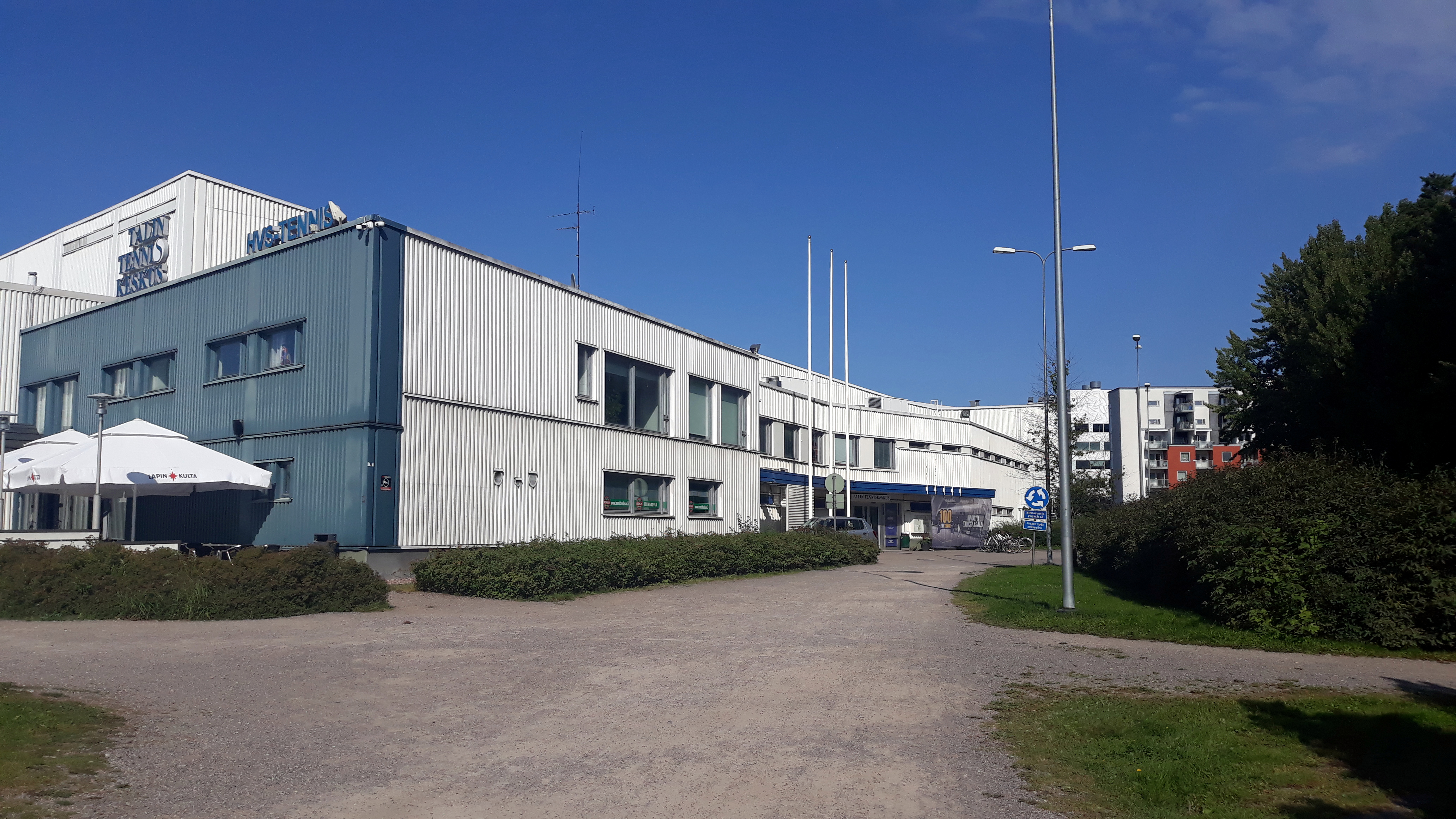 Tali tennis centre in Pitäjänmäki, Helsinki.